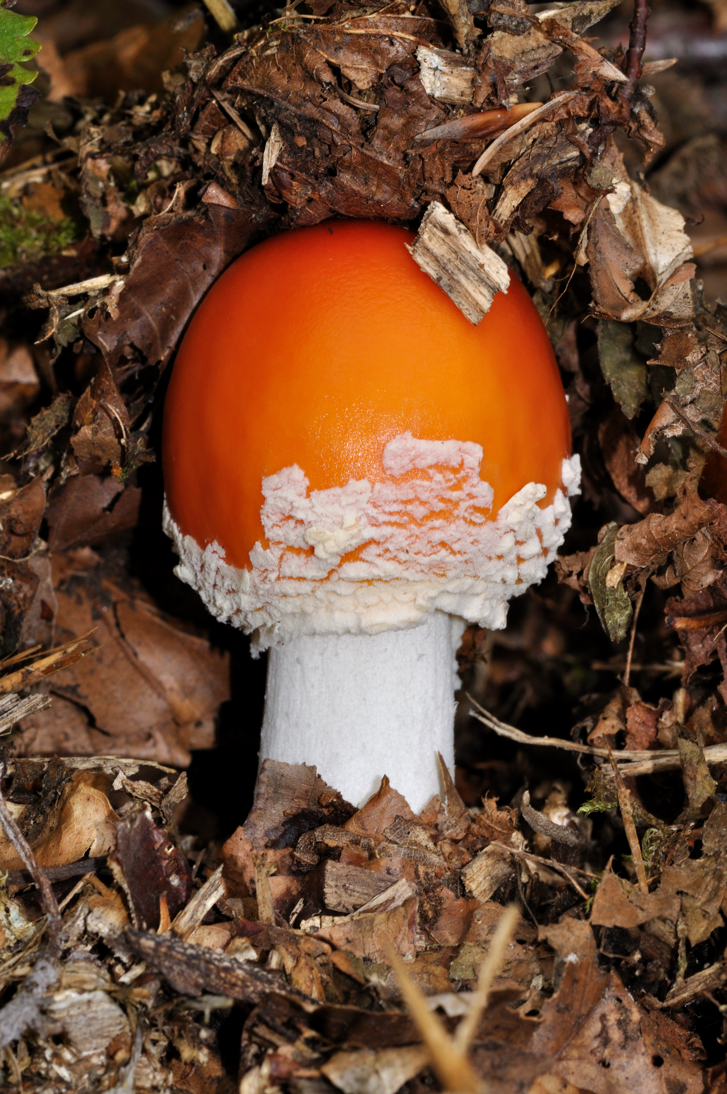 A young Fly Agaric (Amanita muscaria) breaks through the underbrush near Biggesee, Sauerland, Germany.